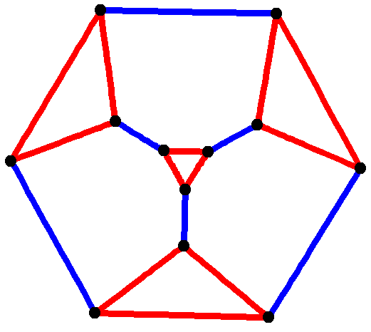 Schlegel diagram